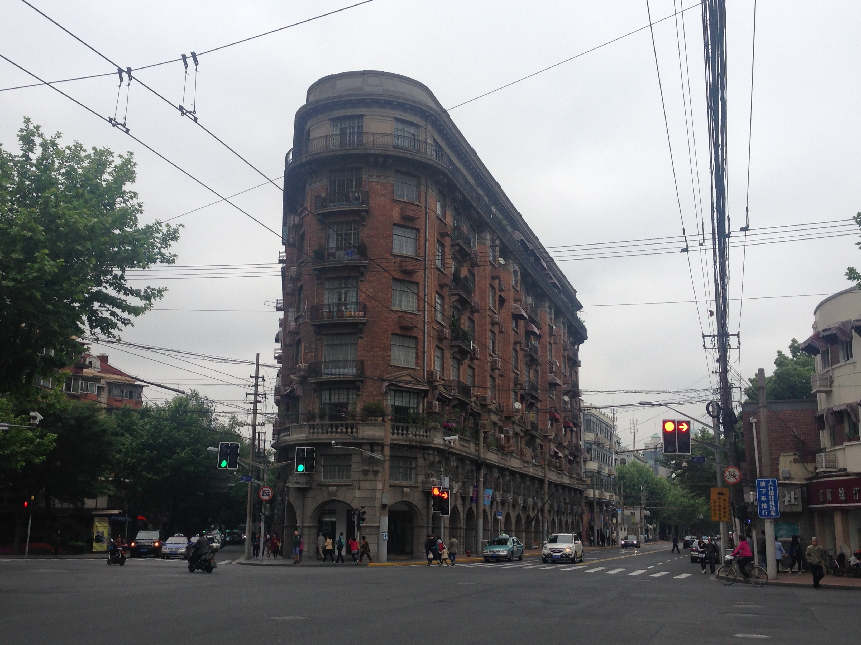 Wukang Mansion in Shanghai, aka Normandie Apartments